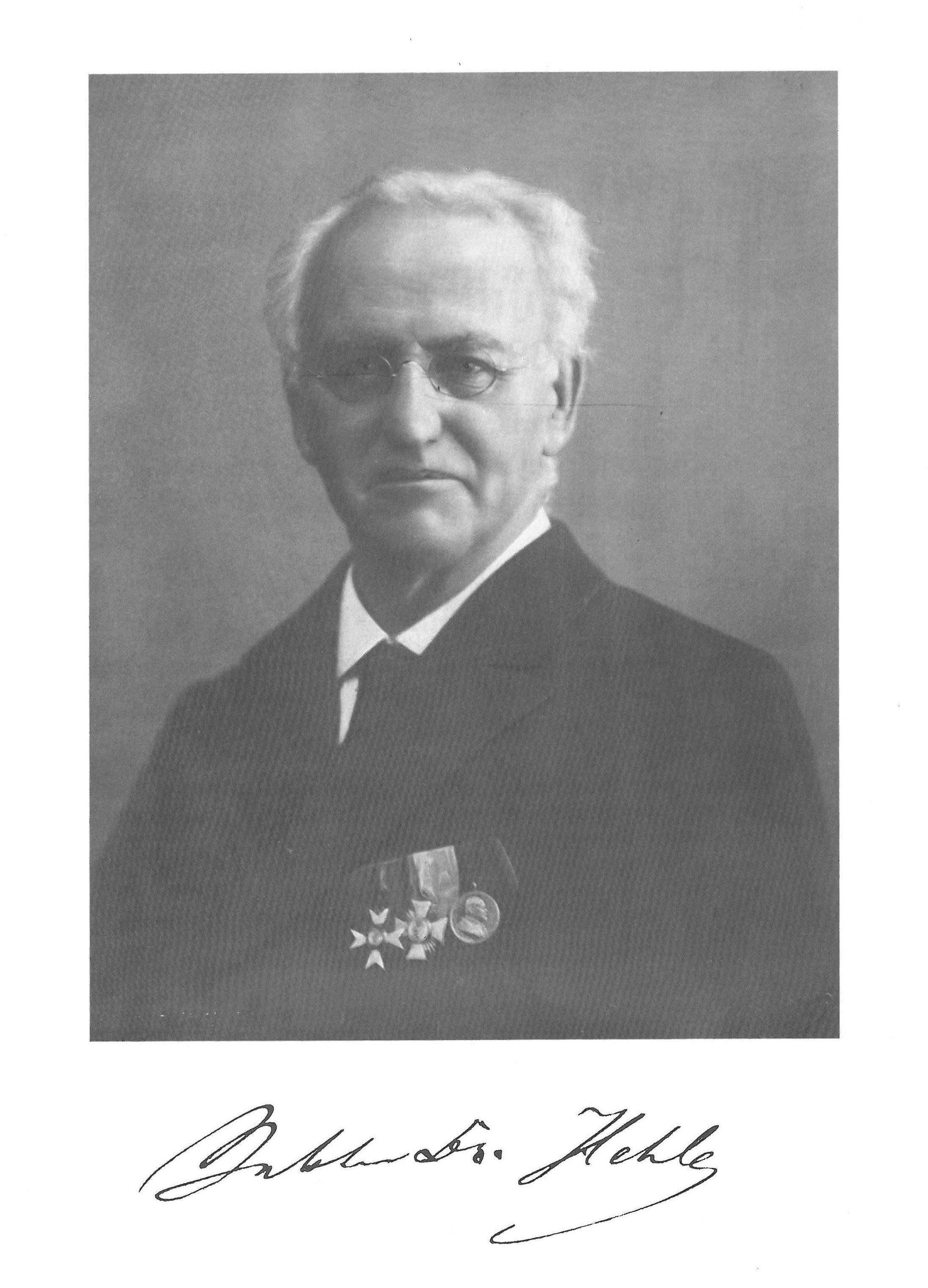 Fotograph of Joseph Hehle (1842-1928), Catholic priest, gymnasium teacher and local historian of Ehingen (Donau)